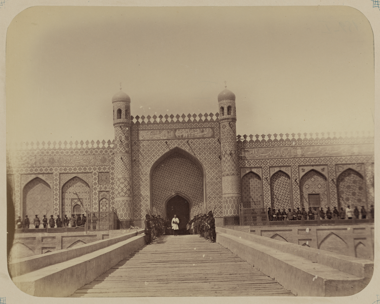 This photograph is from the ethnographical part of Turkestan Album, a comprehensive visual survey of Central Asia undertaken after imperial Russia assumed control of the region in the 1860s. Commissioned by General Konstantin Petrovich von Kaufman (1818–82), the first governor-general of Russian Turkestan, the album is in four parts spanning six volumes: “Archaeological Part” (two volumes); “Ethnographic Part” (two volumes); “Trades Part” (one volume); and “Historical Part” (one volume). The principal compiler was Russian Orientalist Aleksandr L. Kun, who was assisted by Nikolai V. Bogaevskii. The album contains some 1,200 photographs, along with architectural plans, watercolor drawings, and maps. The “Ethnographic Part” includes 491 individual photographs on 163 plates. The photographs show individuals representing the different peoples of the region (Plates 1–33); daily life and rituals (Plates 34–91); and views of villages and cities, street vendors, and commercial activities (Plates 92–163). Architectural decorations and ornaments; Castles and palaces; Ethnographic photographs; Islamic architecture; Kings and rulers; Photographic surveys; Soldiers; Turkic peoples